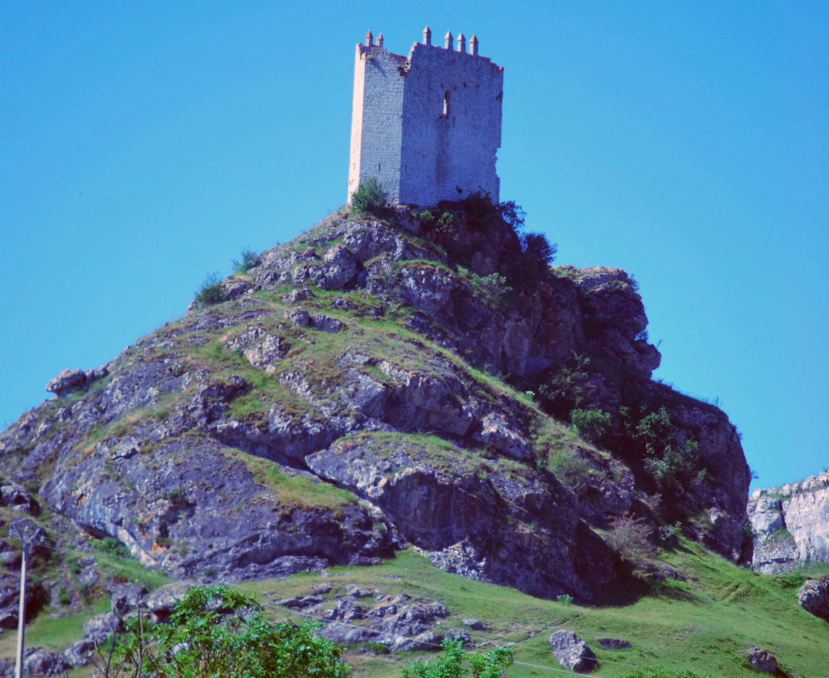 Castle of Úrbel del Castillo (Burgos, Spain) from the North.